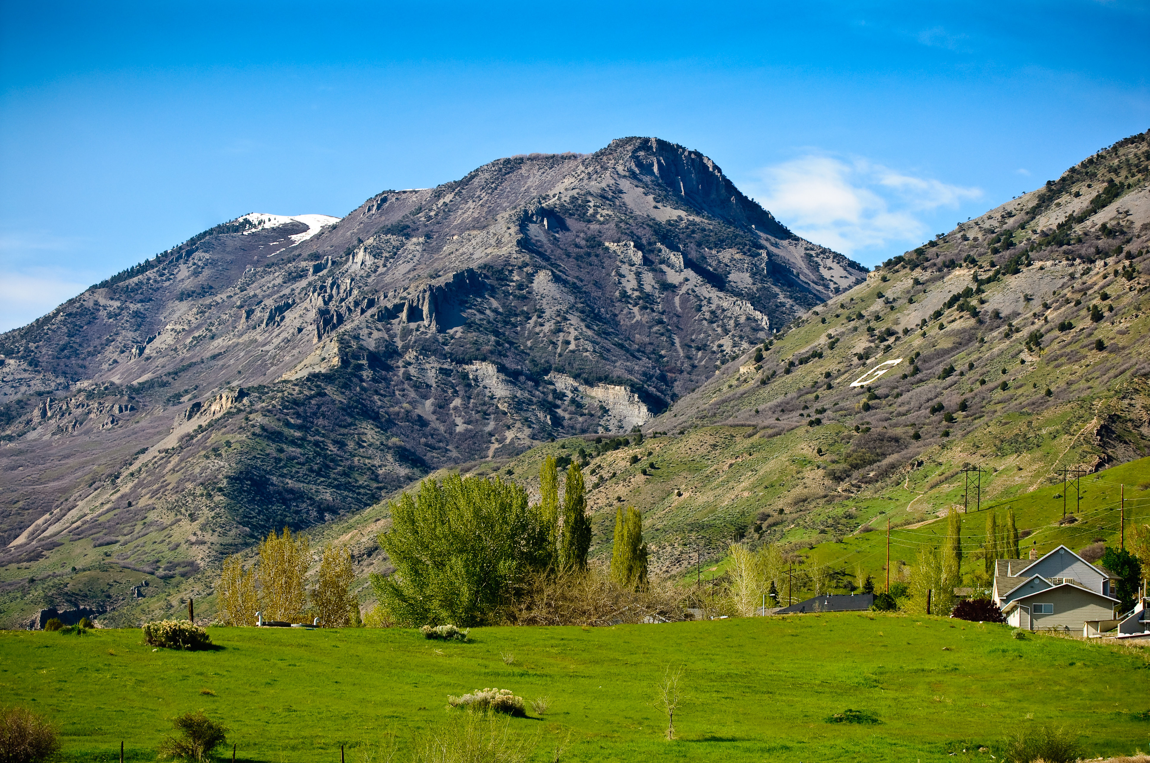 Just south of my neighborhood, in Lindon, Utah.